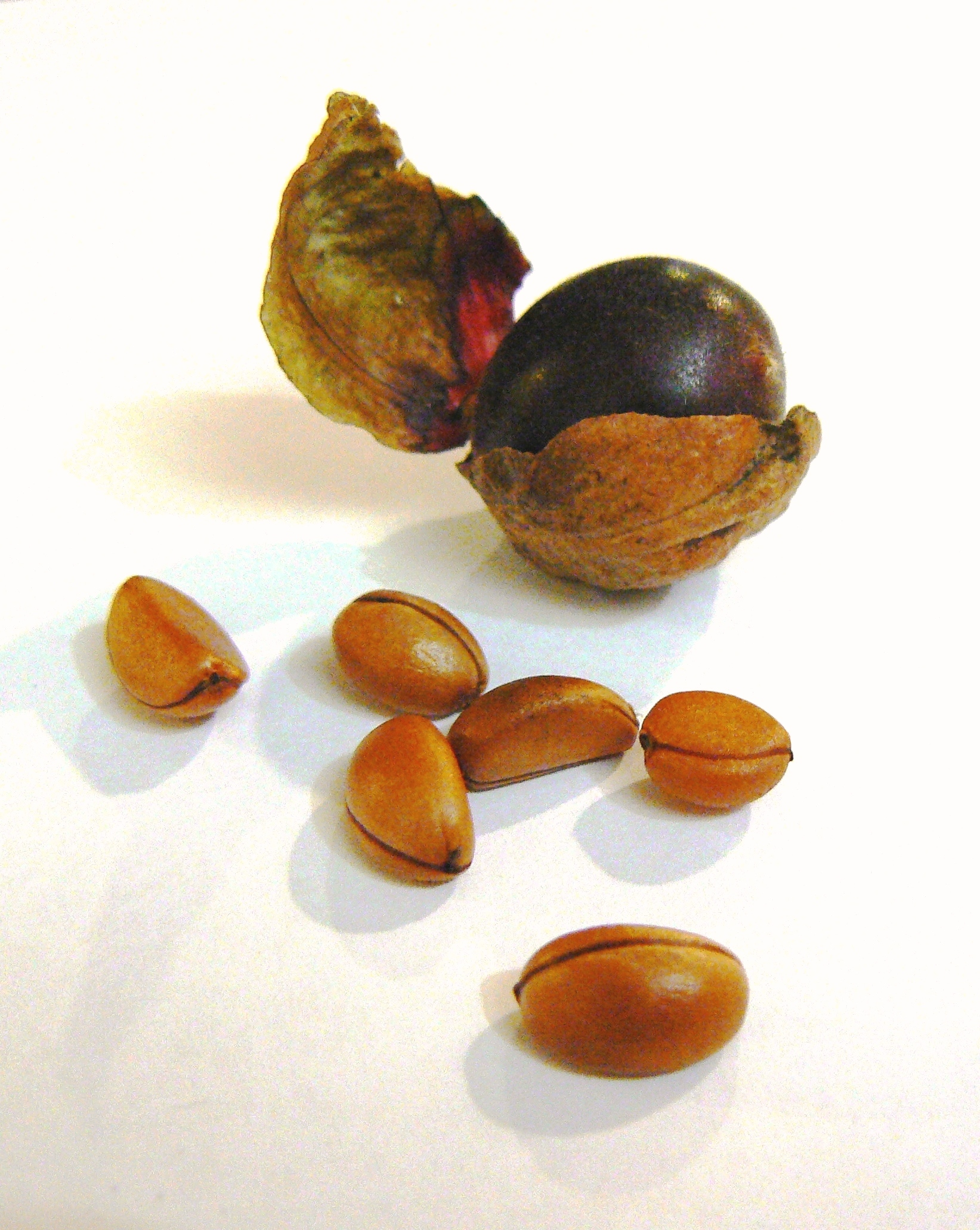 Fruit of the Bladdernut tree. Diospyros whyteana. Cape Town. Example of seeds and fruits sheath.